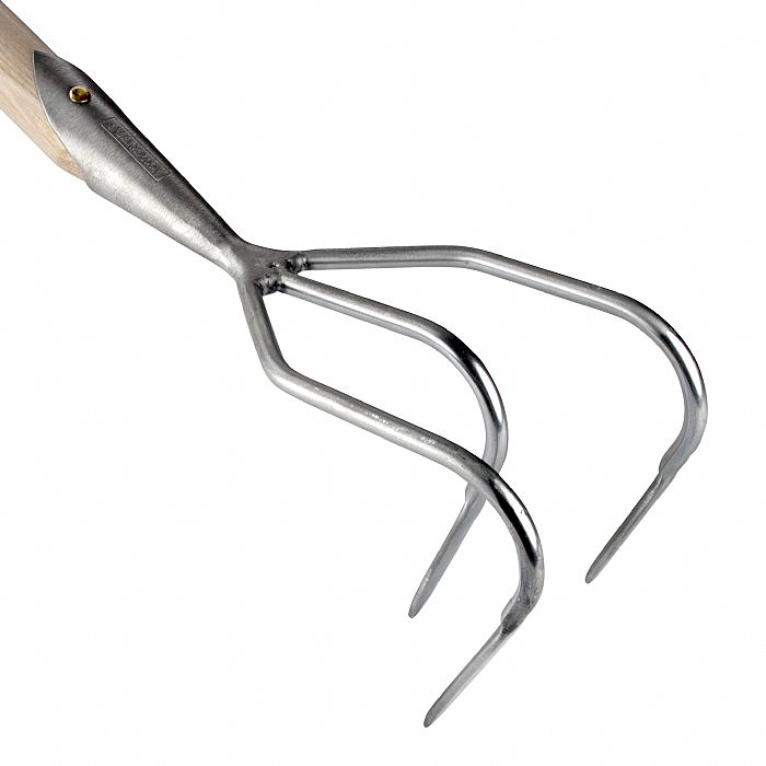 Cultivator with three blades